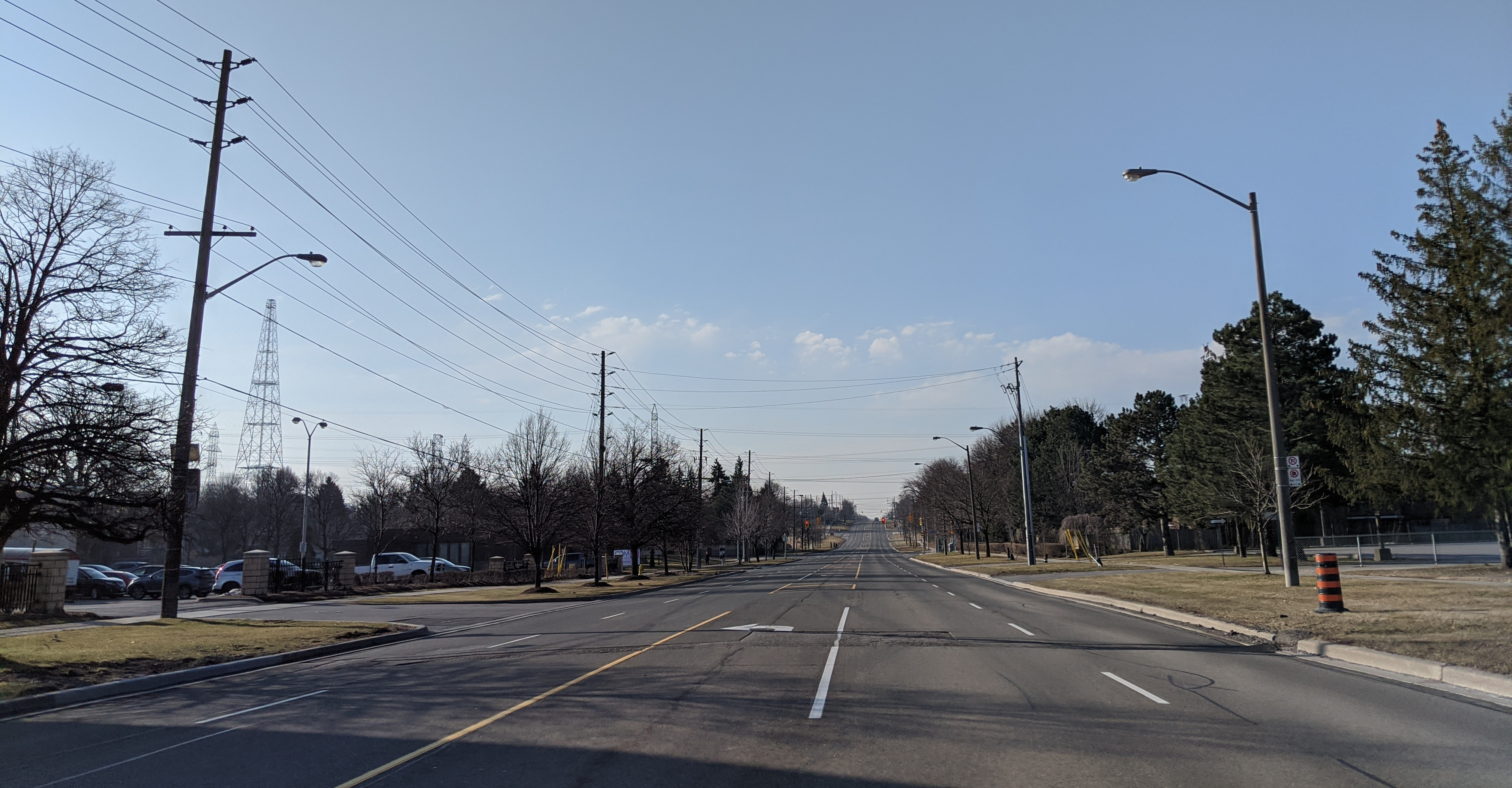 Leslie street southbound on a Thursday morning during the COVID-19 pandemic